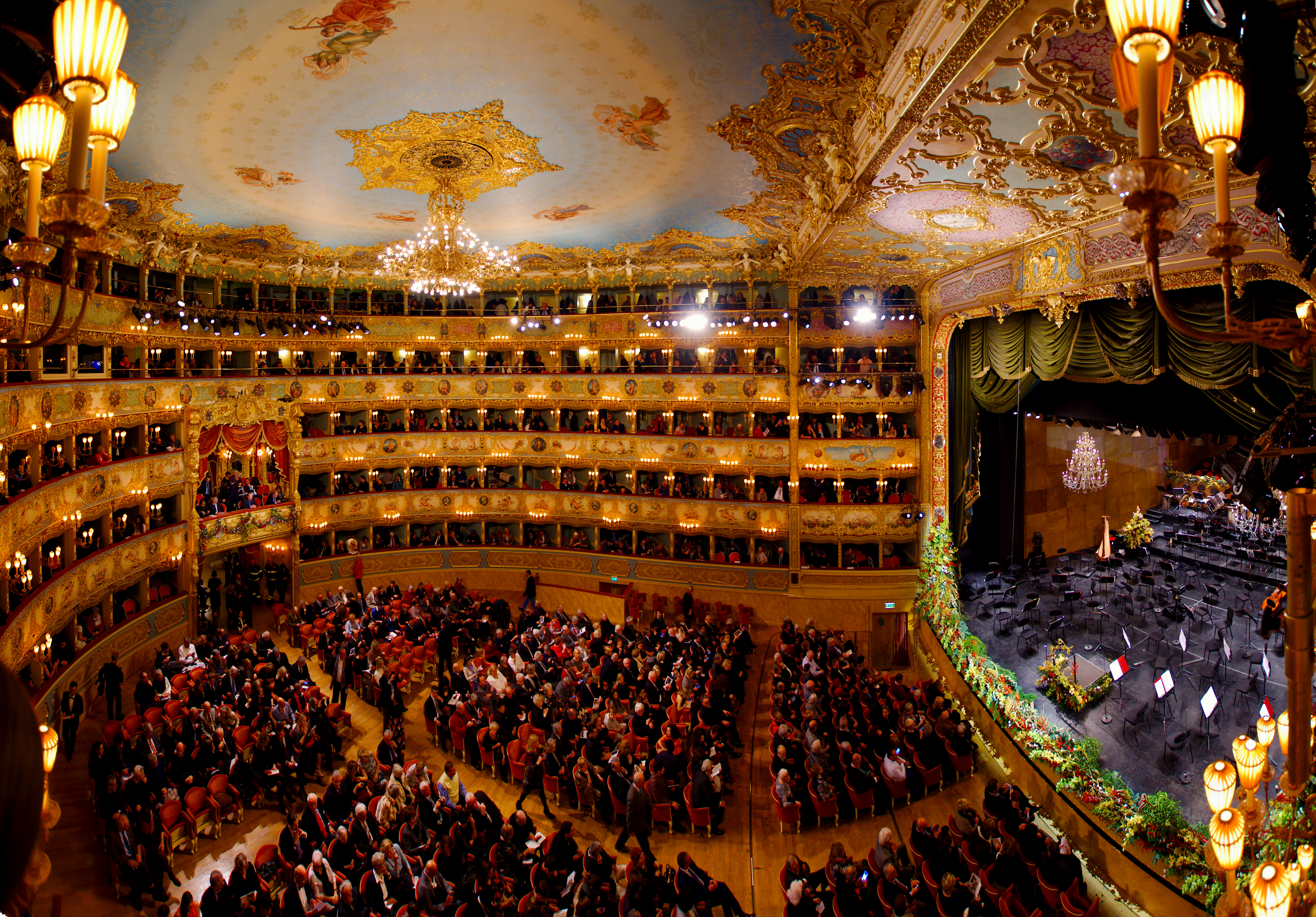 Panorama of the La Fenice theatre interior as per 30/12/2015 prior to the capodanno concert